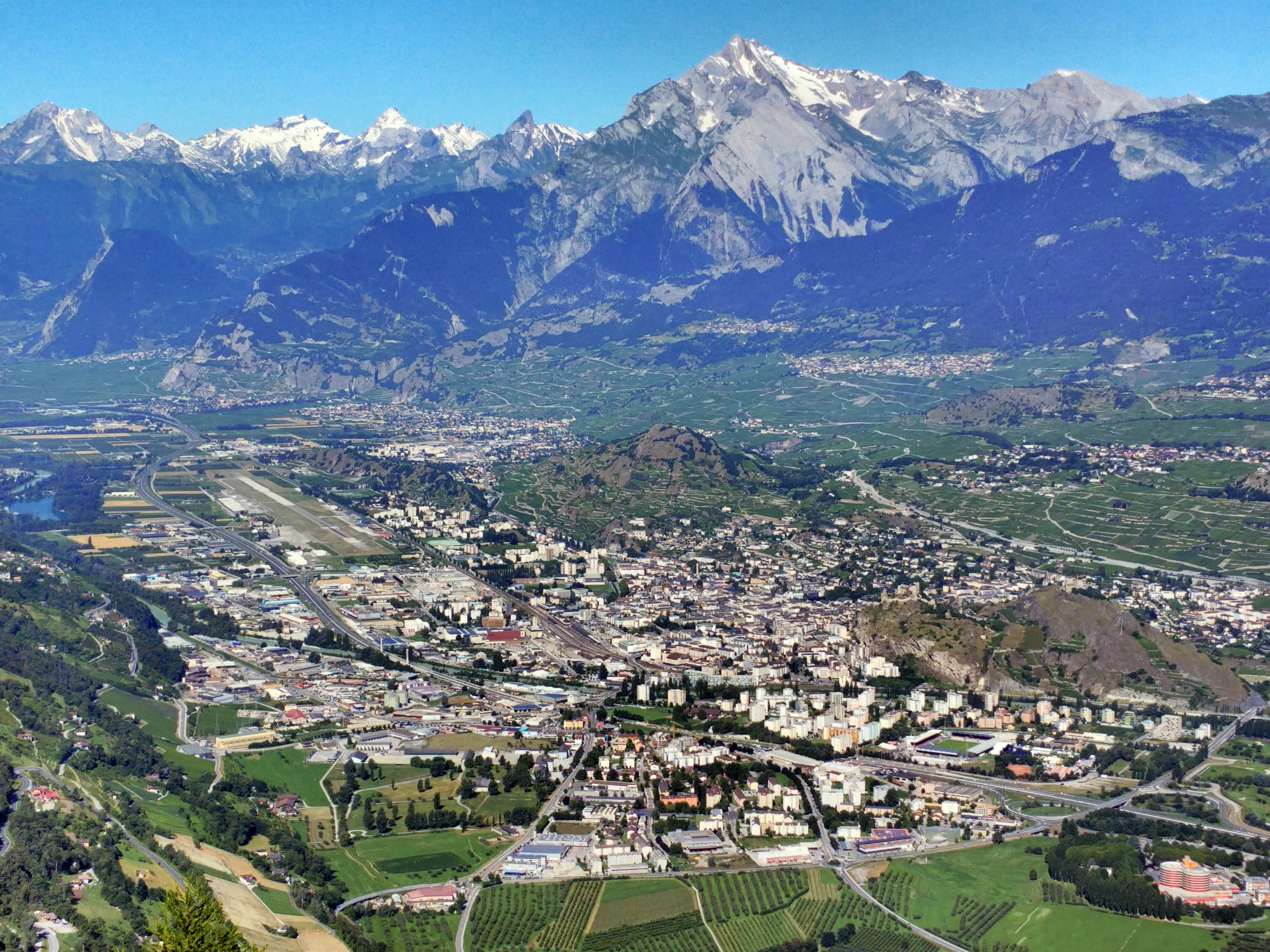 Sion, capital of Valais, and the Rhône Valley. The two prominent mountains on this picture are the Haut de Cry (2969 m, middle right front) and the Grand Chavalard (2899 m, on the left background)